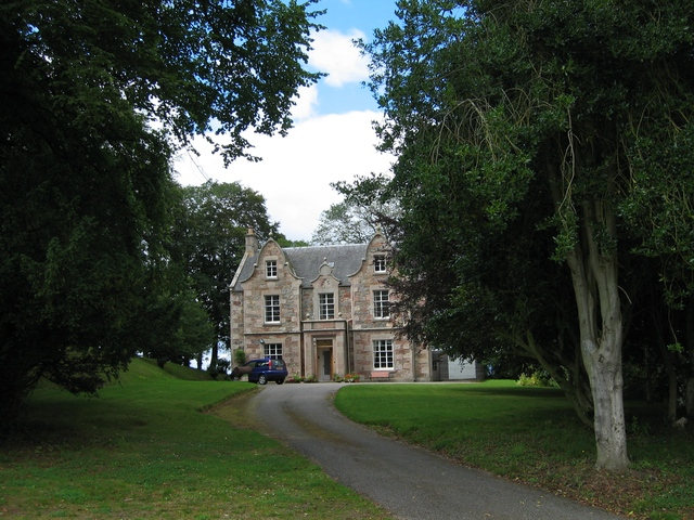 The old manse at Croy, now a private residence